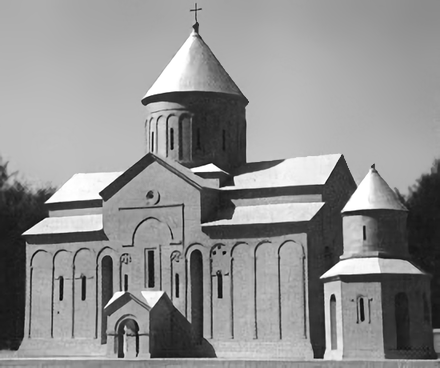 Cathedral of Ani model by Toros Toramanian